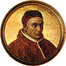 H.H. Pope Innocent VII